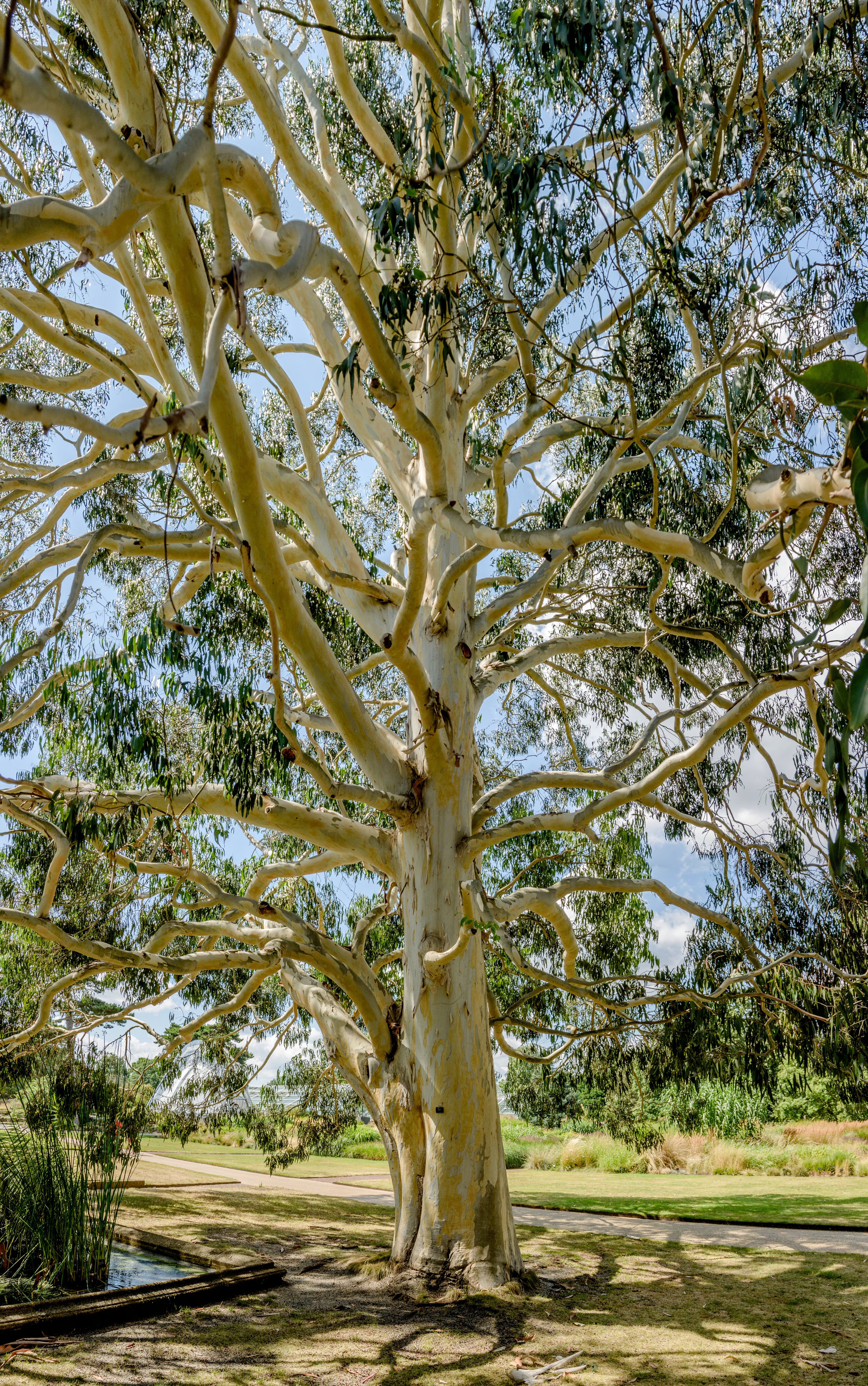 Eucalyptus dalrympleana at Kew Gardens